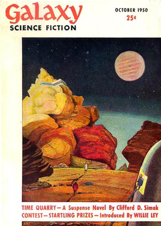 Galaxy Science Fiction, October 1950. First issue. Artist: David Stone Web Used in Galaxy Science Fiction, which evidently contracted for artwork on a Work for hire basis (see, e.g., Vincent di Fate, Infinite Worlds [1997], p. 160), meaning the copyright resided with the publisher rather than the artist. Works copyrighted before 1964 had to have the copyright renewed sometime in the 28th year. If the copyright was not renewed the work is in the public domain. These records are in the online catalog found here: . The copyright registration for the October 1950 issue of Galaxy Science Fiction is B00000262888 on September 8,1950. Two stories in this issue were renewed but the magazine was not. "The Stars are the Styx" by Theodore Sturgeon (RE0000031280 / 1978-03-03) and "The Last Martian" by Fredric Brown (RE0000010133 / 1978-12-19). The copyright on this magazine was not renewed and it is in the public domain.